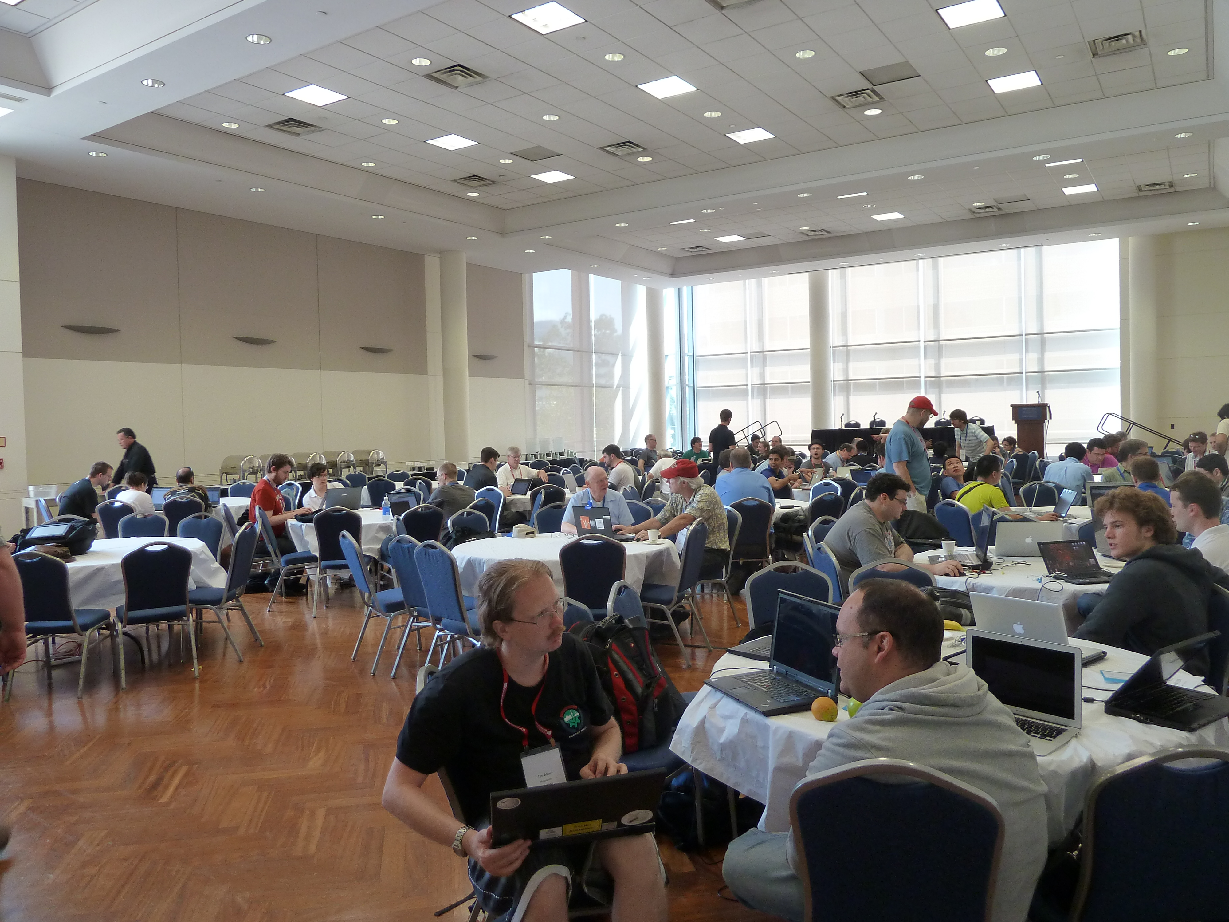 Wikimania 2012 Hackathon